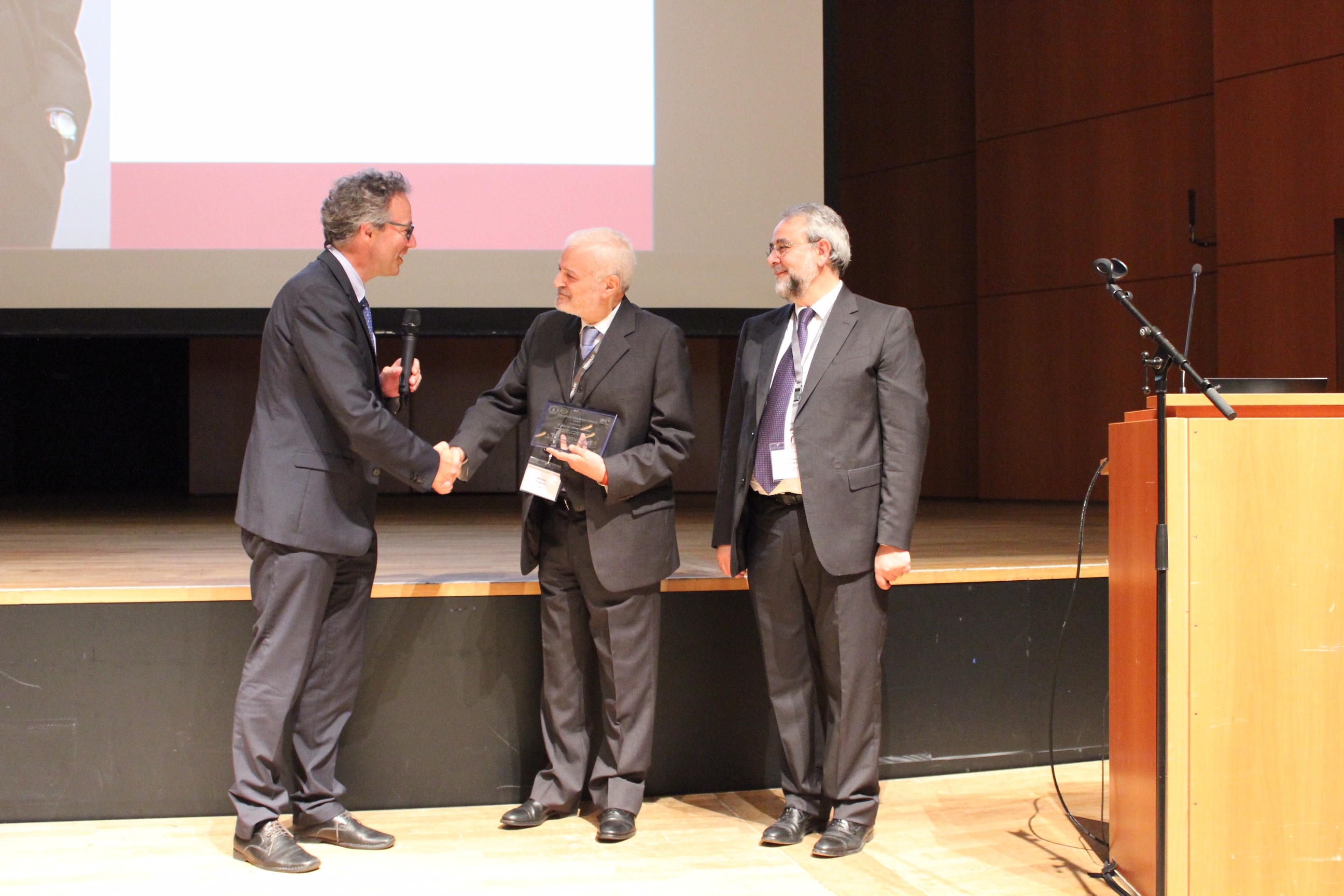 This is the reception by Alfonso Farina of the Christian Hülsmeyer Award of the German Institute of Navigation (DGON) “In appreciation of his outstanding contribution to radar research and education.”